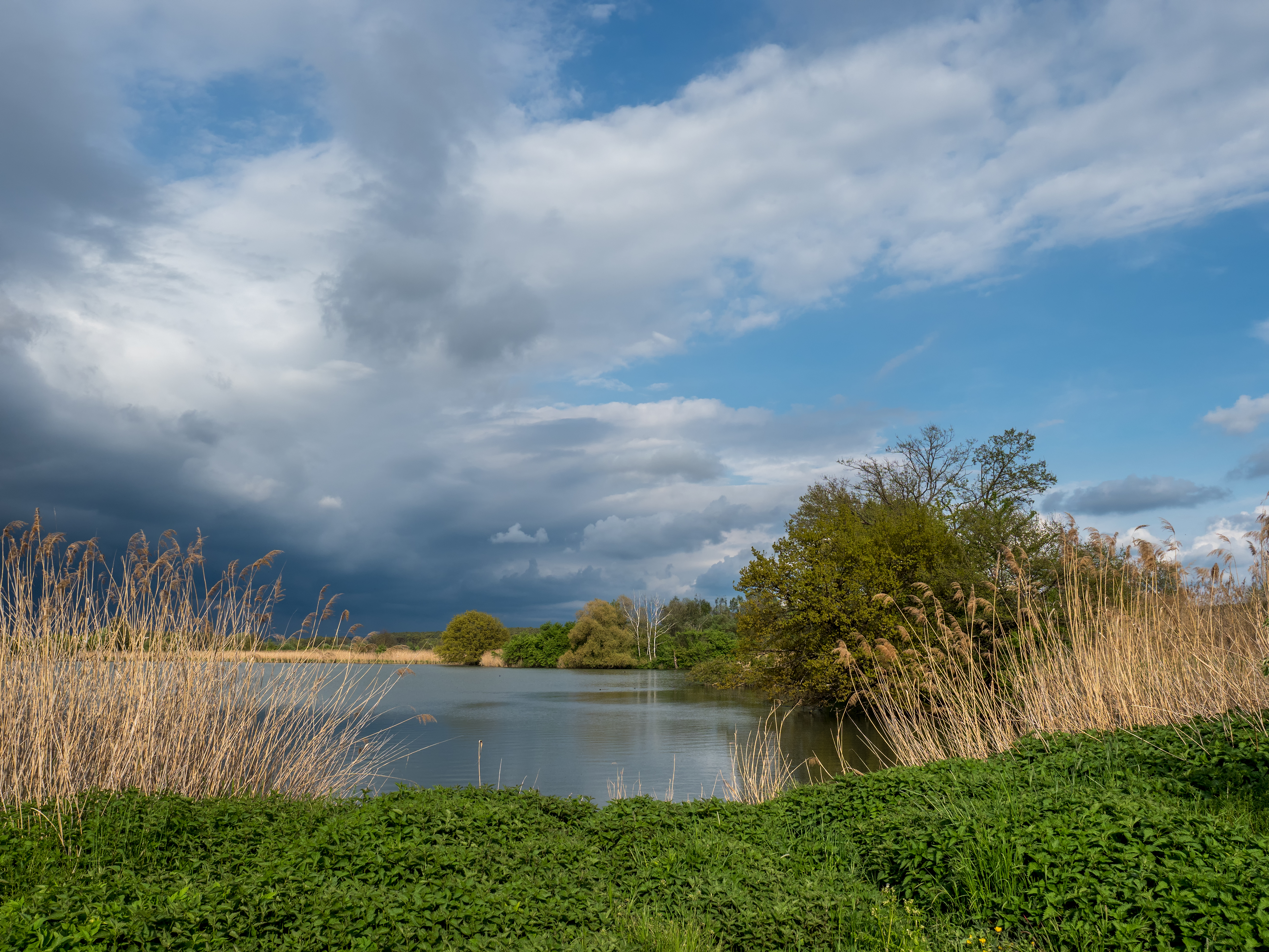 Pond near the Neuhaus castle